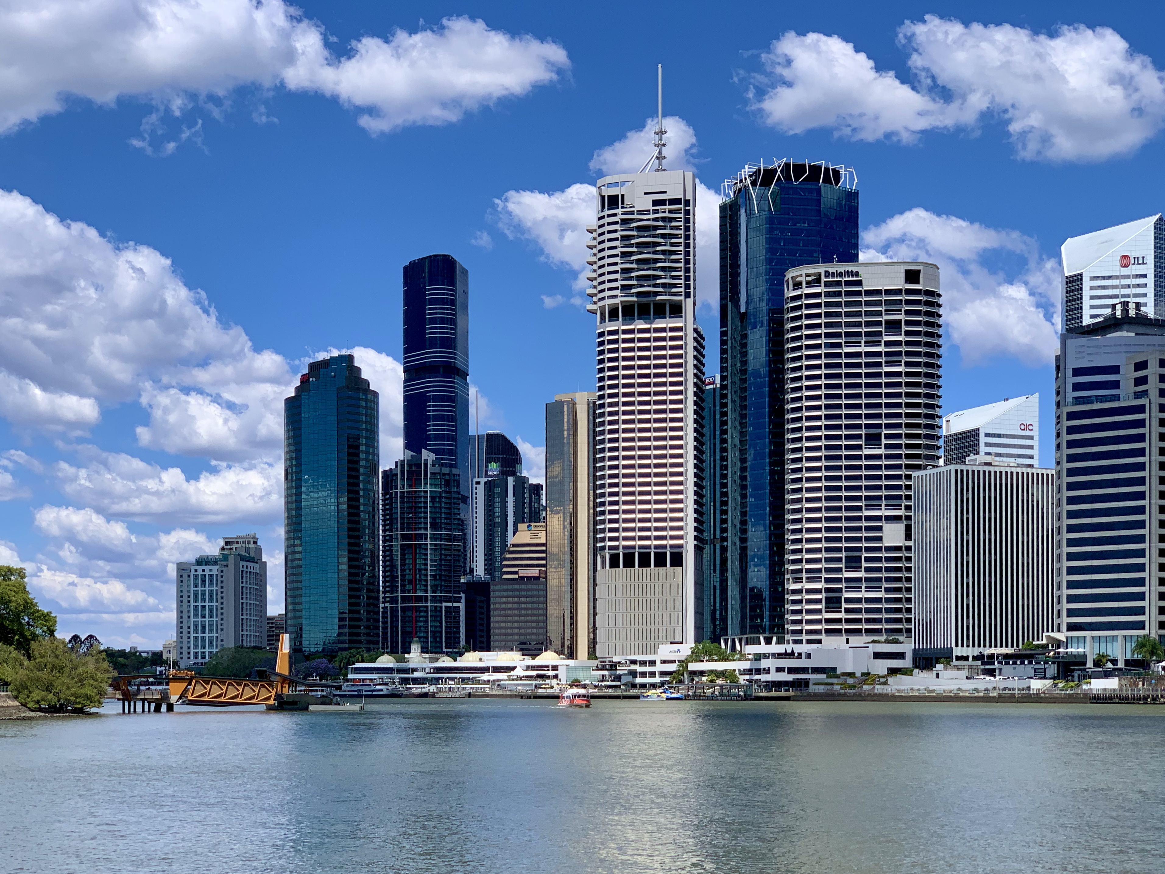 Skylines in Brisbane, November 2019